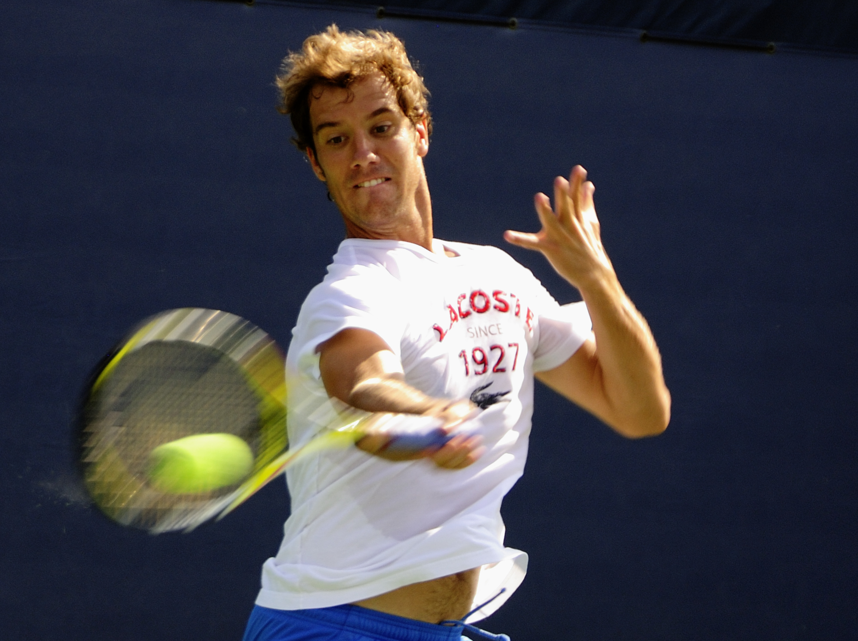 Richard Gasquet at the 2009 US Open